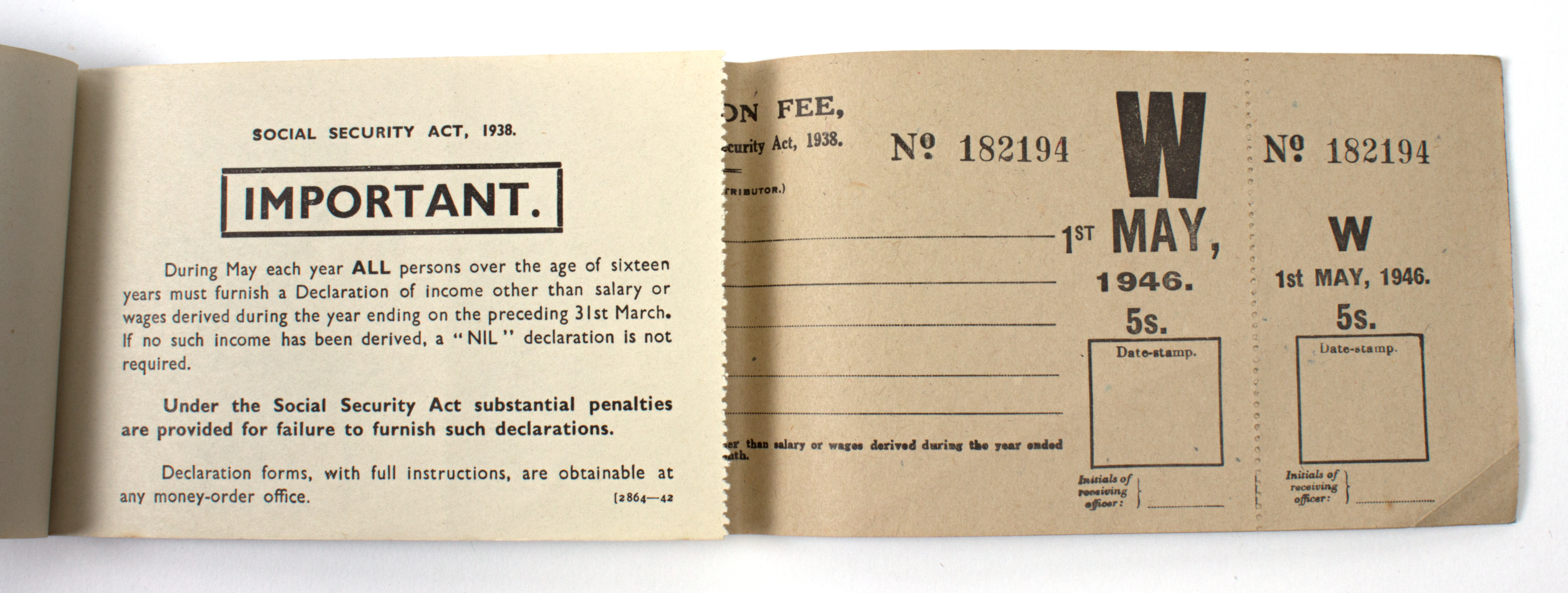 Coupon book New Zealand Social Security Act 1938 registraton coupon book; 2nd series (period 1944-1950) For issue to female persons only. Issued to Mrs Mabel Weight, 14 Riddell Rd, St Heliers, 1944